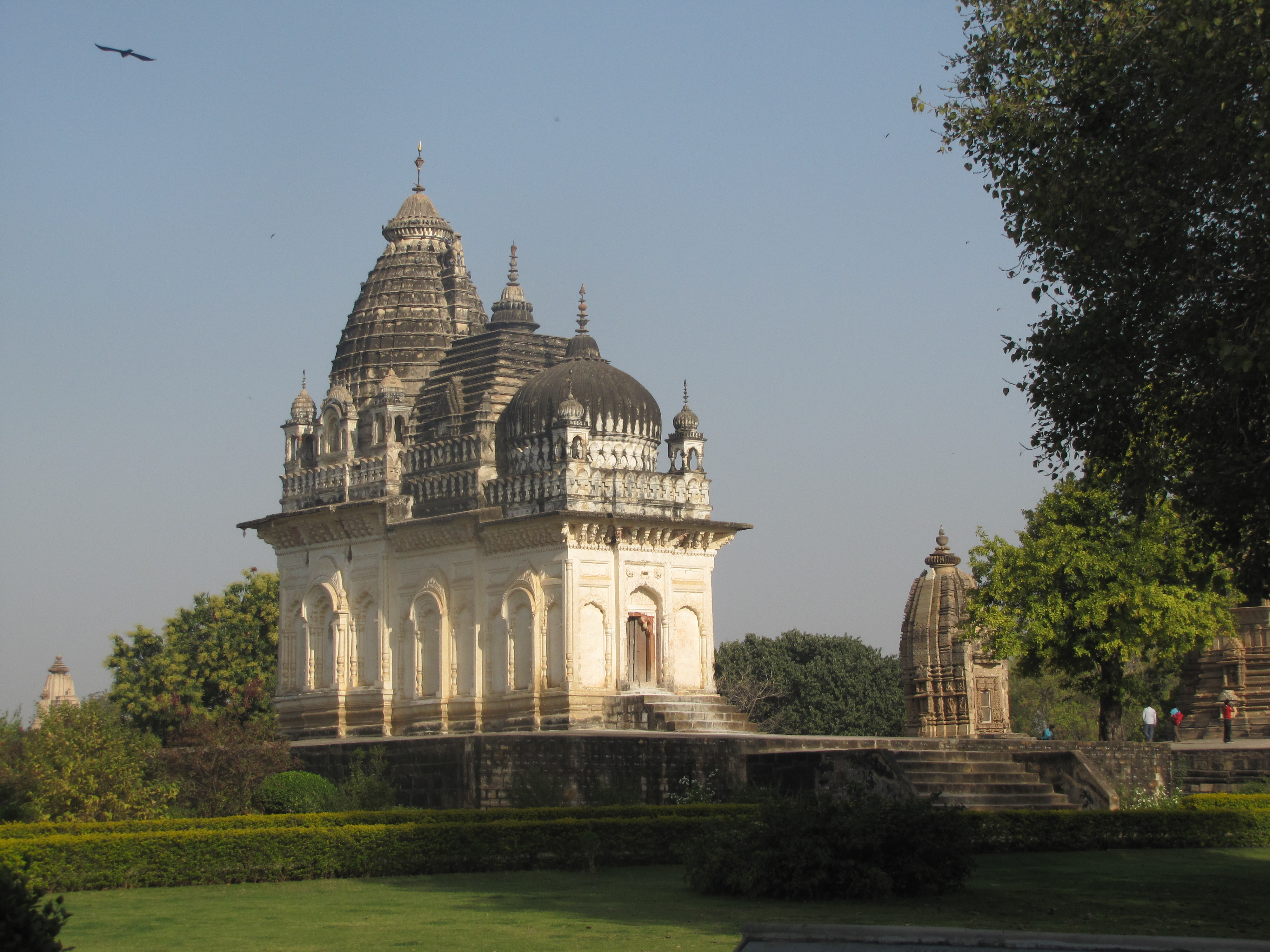 Khajuraho India, Parvati Temple on right. The other temple on the left was built by Maharaja of Chattarpur in the XIXth century. This temple has a Hindu spire, a Jain cupola, a Buddhist Stupa and a Muslim style Dome, in place of the usual Shikharas, indicating the secular trend envisaged in this Temple.